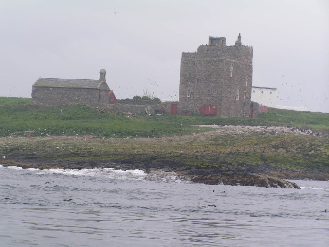 Chapel & Tower on Inner Farne. This is actually taken from NU2134, but the map doesn't acknowledge that square.